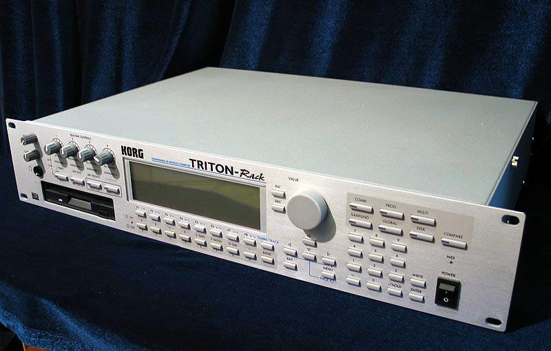 Korg Triton rack. Slightly tuned version of File:Triton_rack.jpg by User:Matias.Reccius